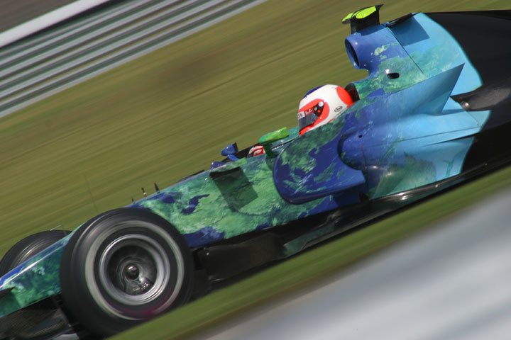 Rubens Barrichello driving for Honda F1 at the 2007 United States Grand Prix.